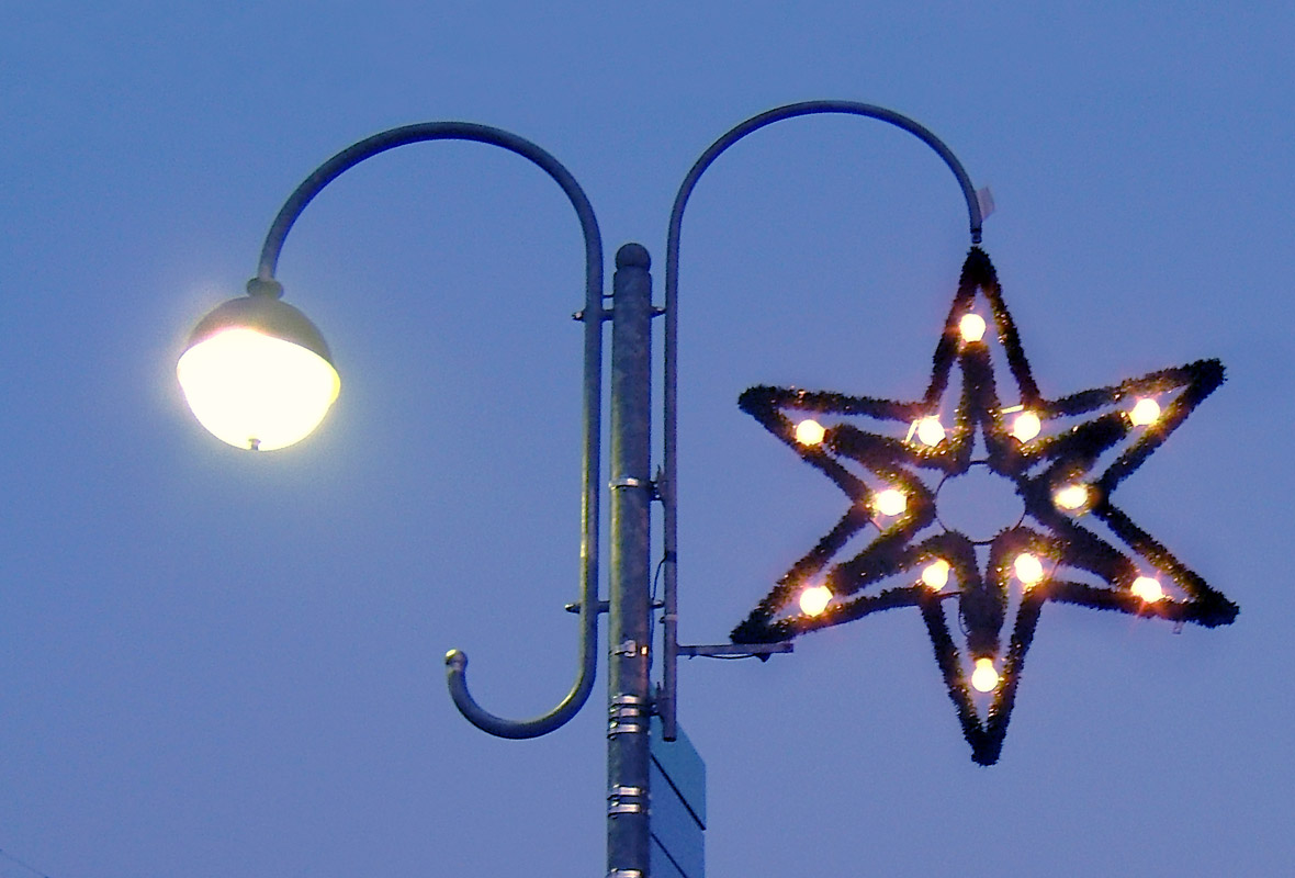 Christmas lighting in Weinstadt-Endersbach, Germany; night photograph.